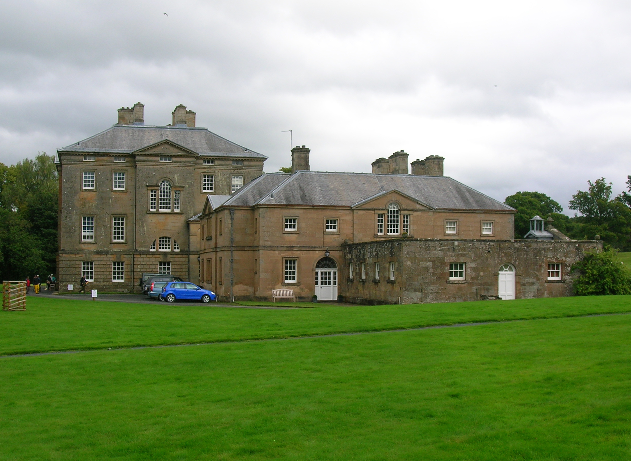 Dumfries House from the west, East Ayrshire, Scotland.